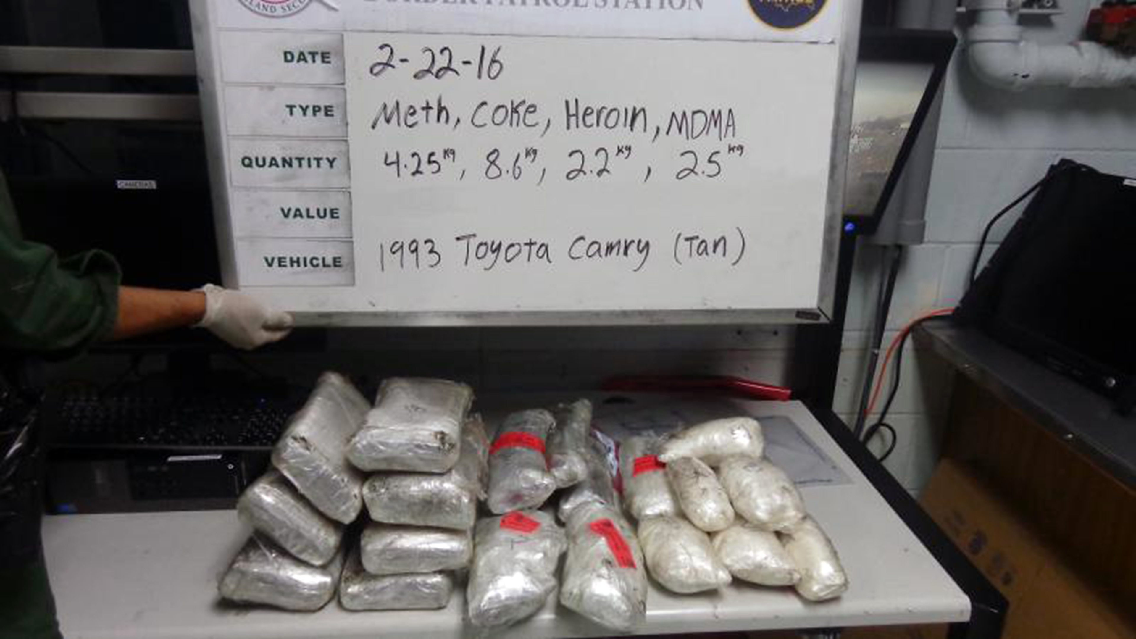 022216: SAN CLEMENTE, Calif.—U.S. Border Patrol agents discovered an array of drugs inside two vehicles, which resulted in the arrest of three men at the San Clemente checkpoint. The tire was filled with bundles of ecstasy, crystal meth, cocaine, and heroin worth an estimated $652,700. Photo provided by: U.S. Customs and Border Protection